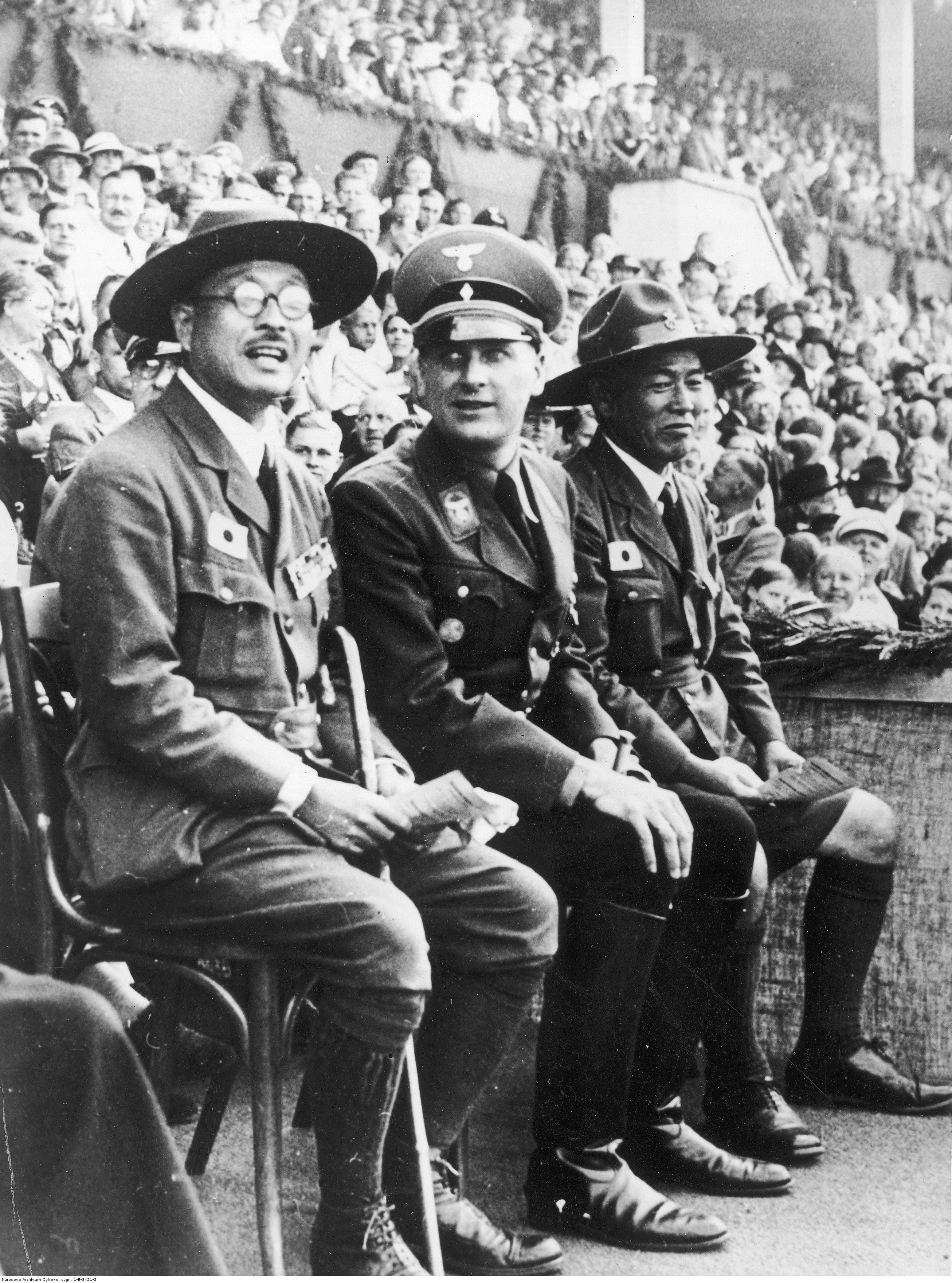 Reichsjugendführer Baldur von Schirach with Japanese Boy Scout leaders (German text caption reads "Jugendführer" youth leader) as spectators at fight games of the Hitlerjugend in Bremen, Germany August 15, 1937. A Japanese youth/Scout delegation visited Germany in 1937. left Earl Yoshinori Futara (二荒芳徳) center Baldur von Schirach right unnamed Scout leader